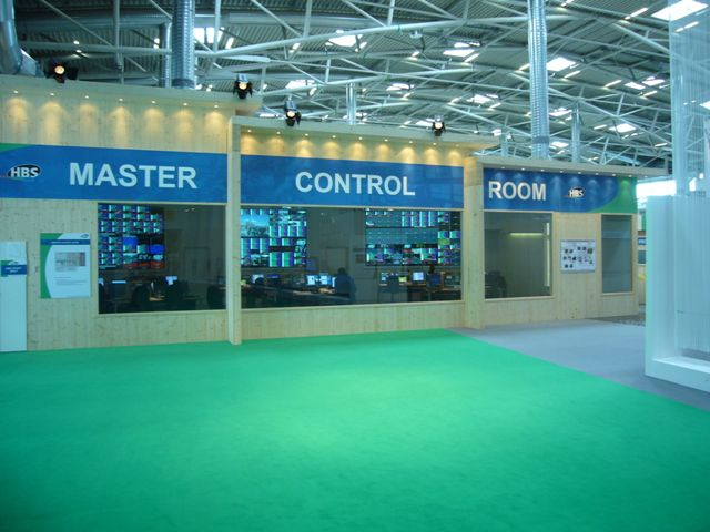 The Master Control Room of the IBC in Munich during the FIFA worldcup 2006 in Germany